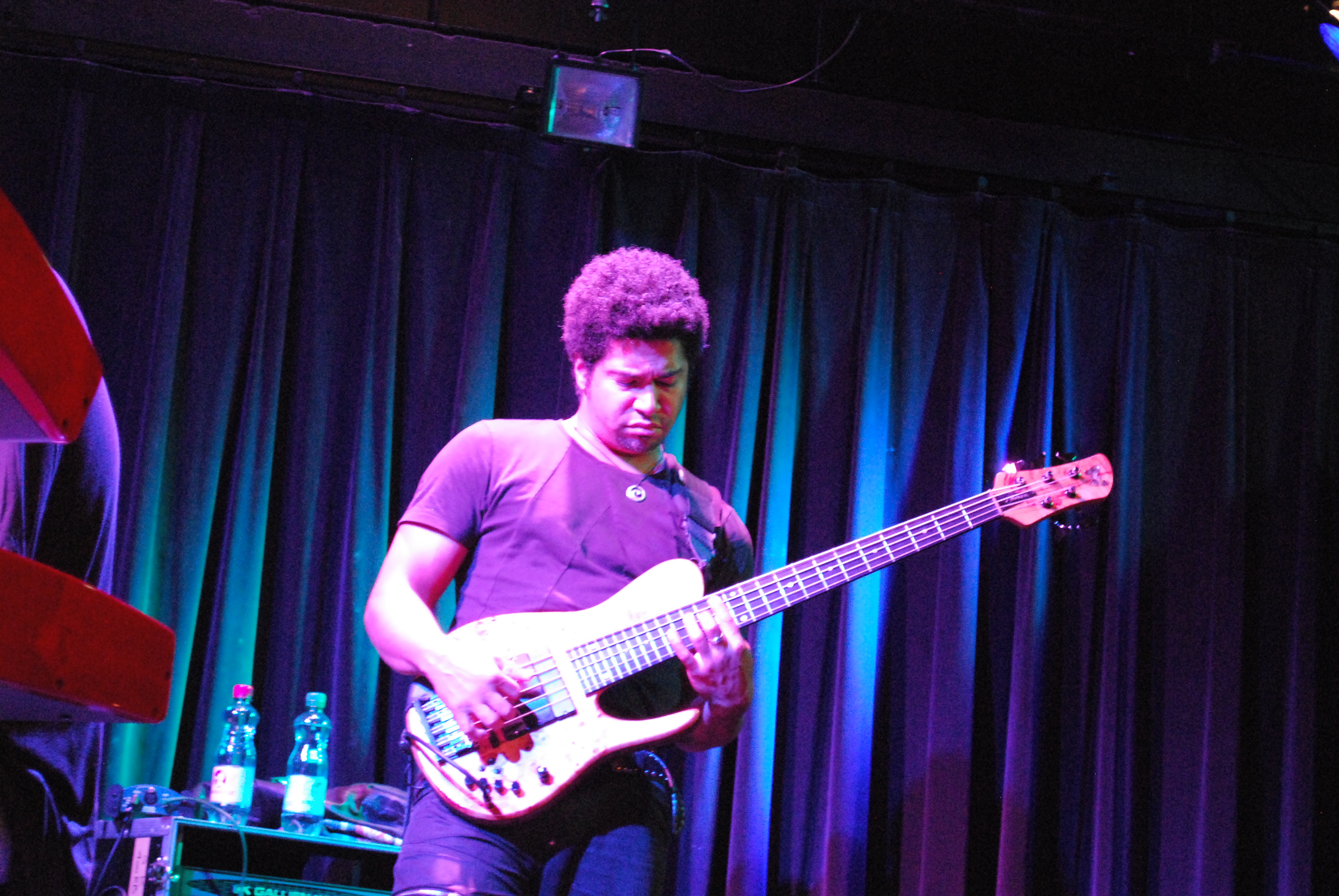 Matt Garrison